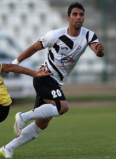 Saman Aghazamani